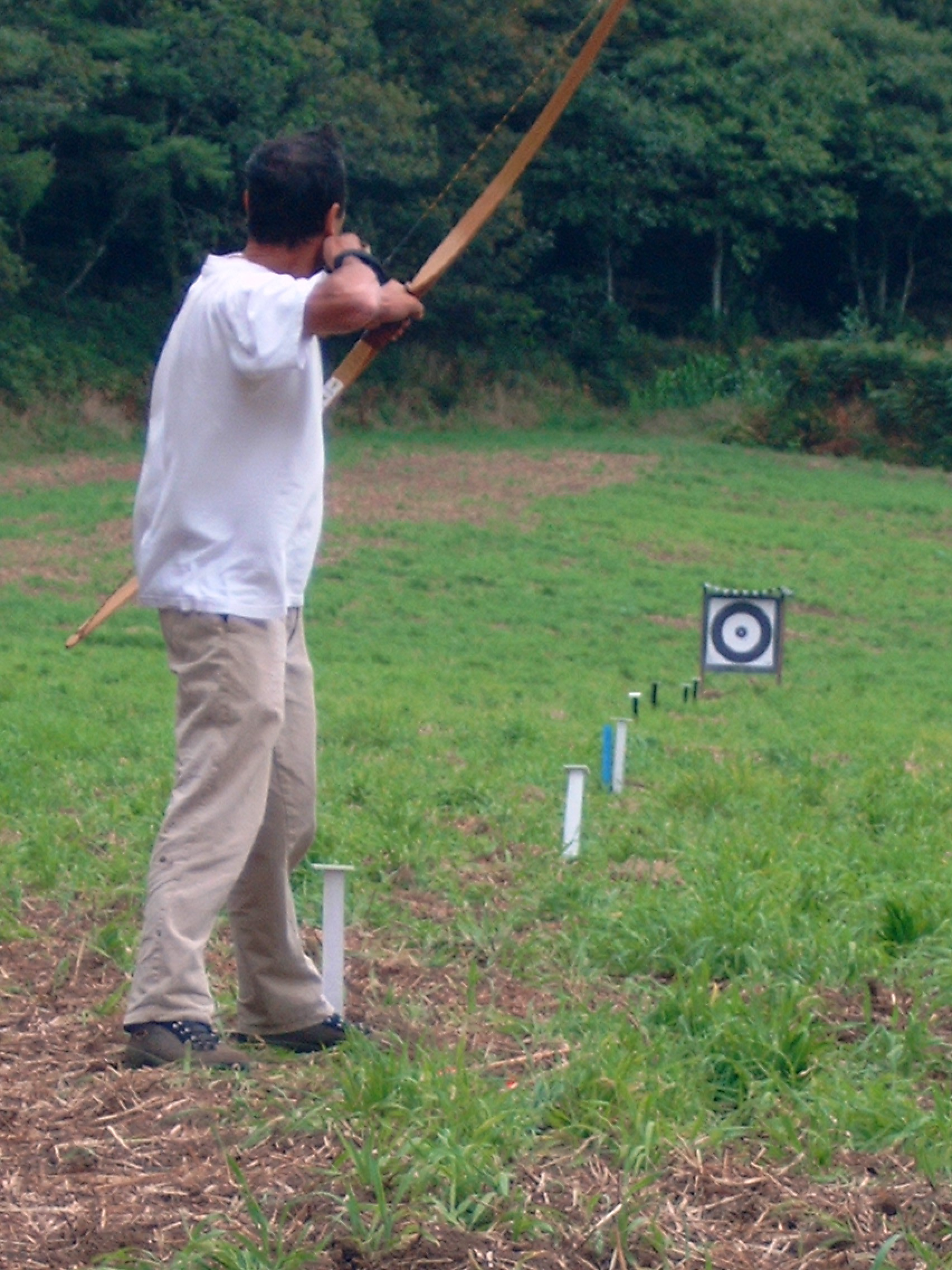 Field games with longbow